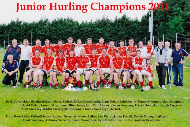 Team Photo